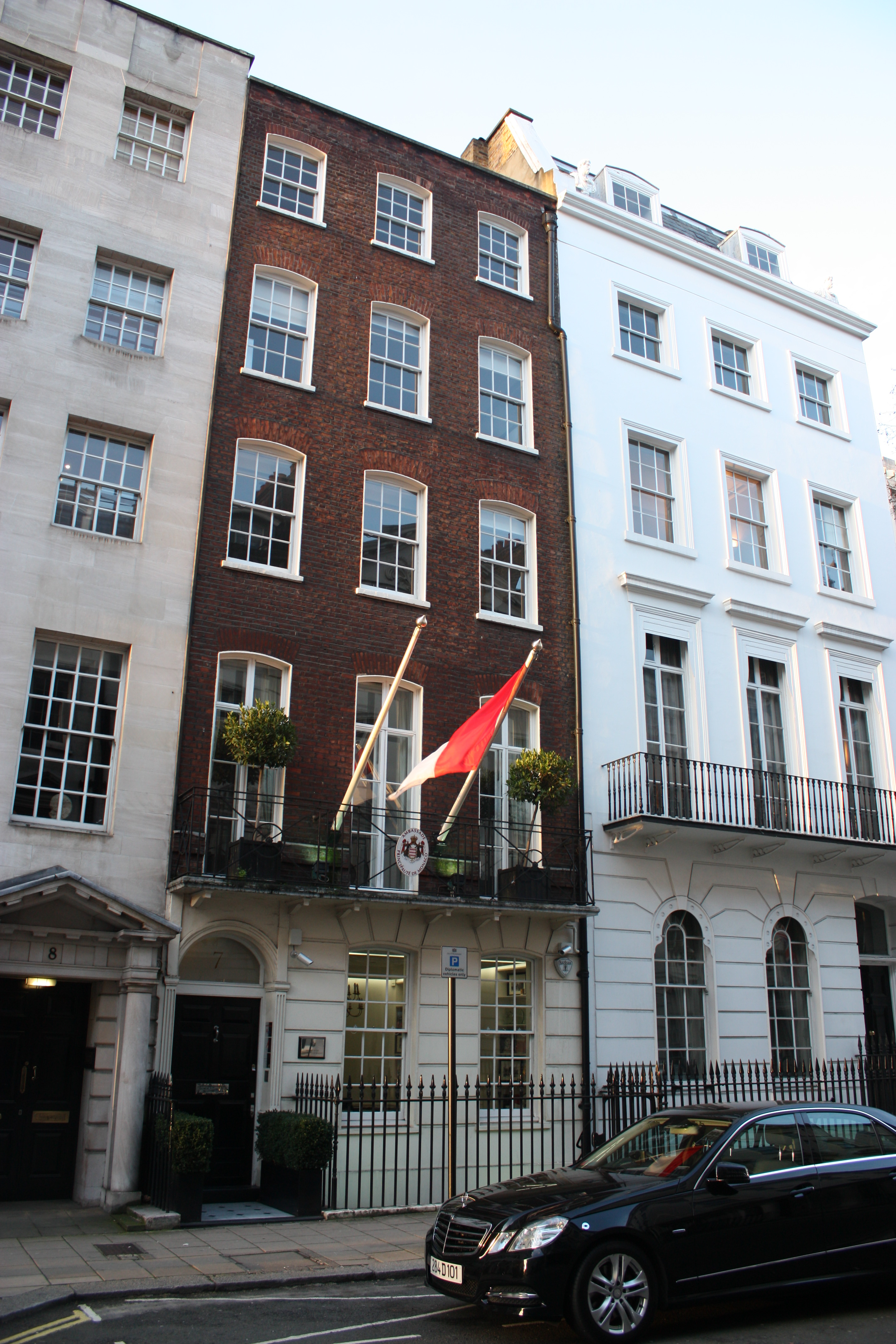 Embassy of Monaco in London, 7 Upper Grosvenor Street, W1